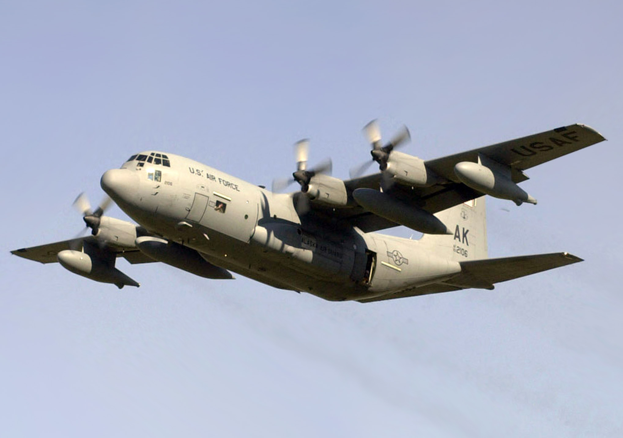 Alaska Air National Guard HC-130